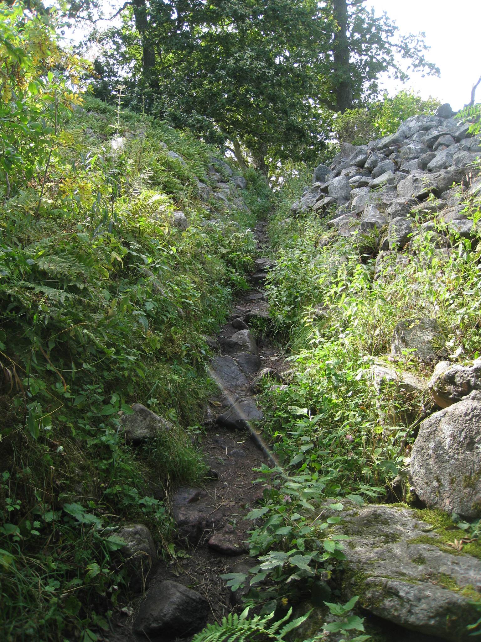 Gåseborg hillfort in Görväln's nature reserves in Järfälla Municipality, western Stockholm. The wall gap upwards.